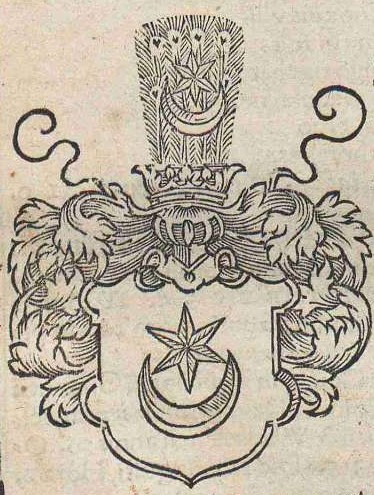 Leliwa coat of arms by Bartosz Paprocki